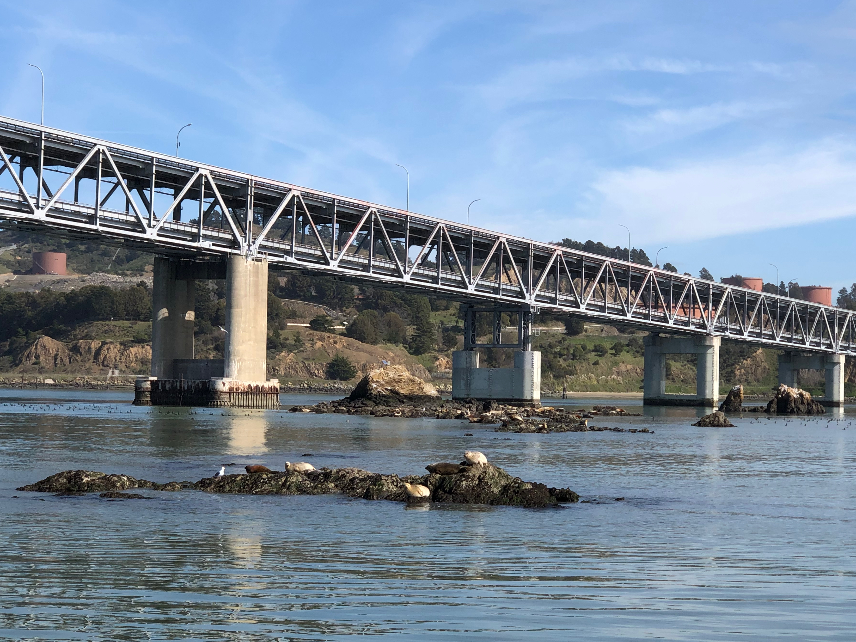 Castro Rocks with harbor seals. These are in Richmond, California, in the water of San Francisco Bay.